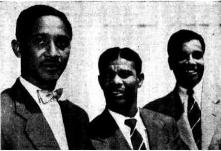 Barbadian cricketers (from left) Frank Worrell, Everton Weekes and Clyde Walcott photographed in Townsville while on tour with the West Indies cricket team in 1951-52.